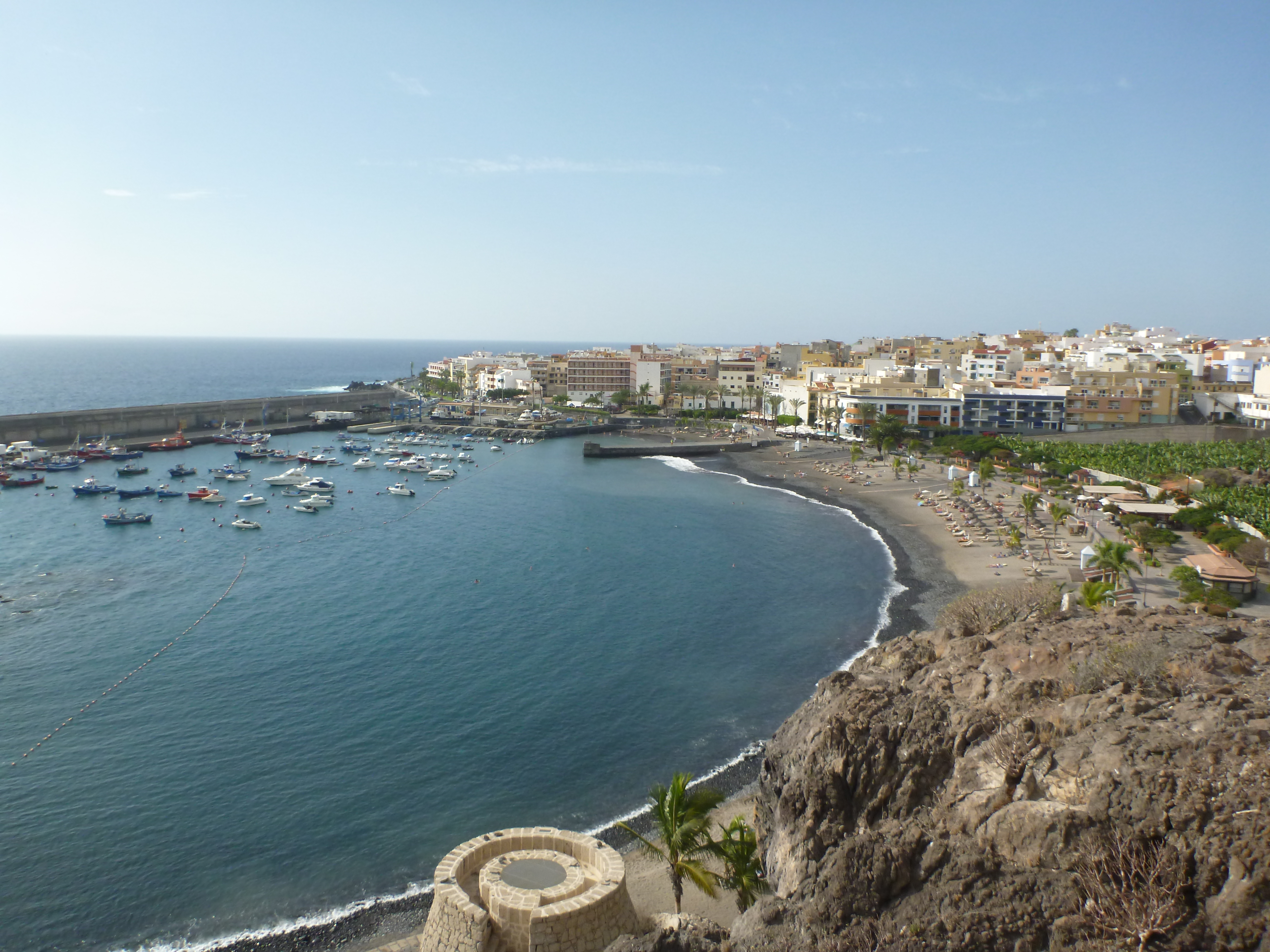 Overview over Playa San Juan from the Alcaravan sculpture